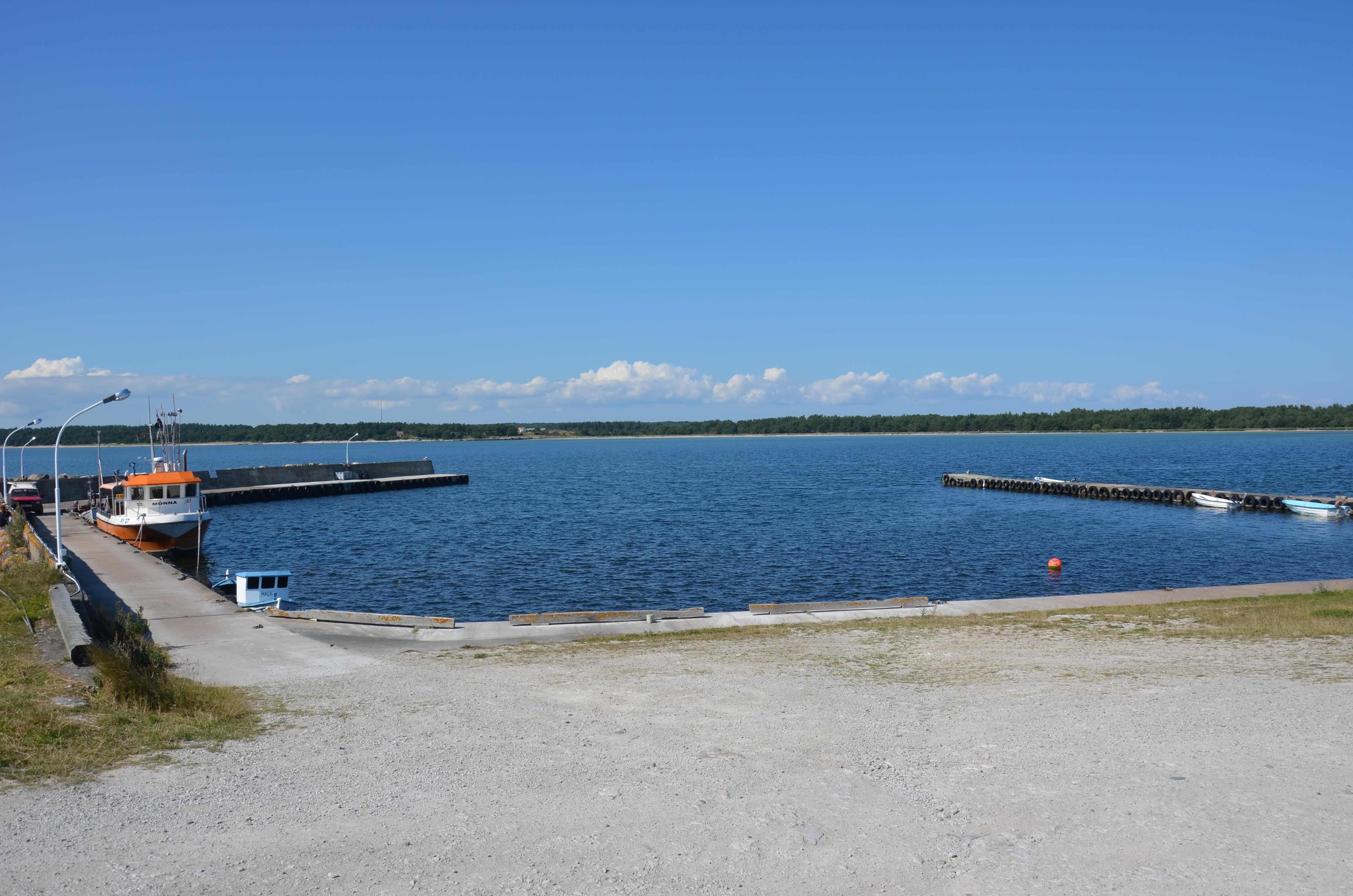 Syssne hamn